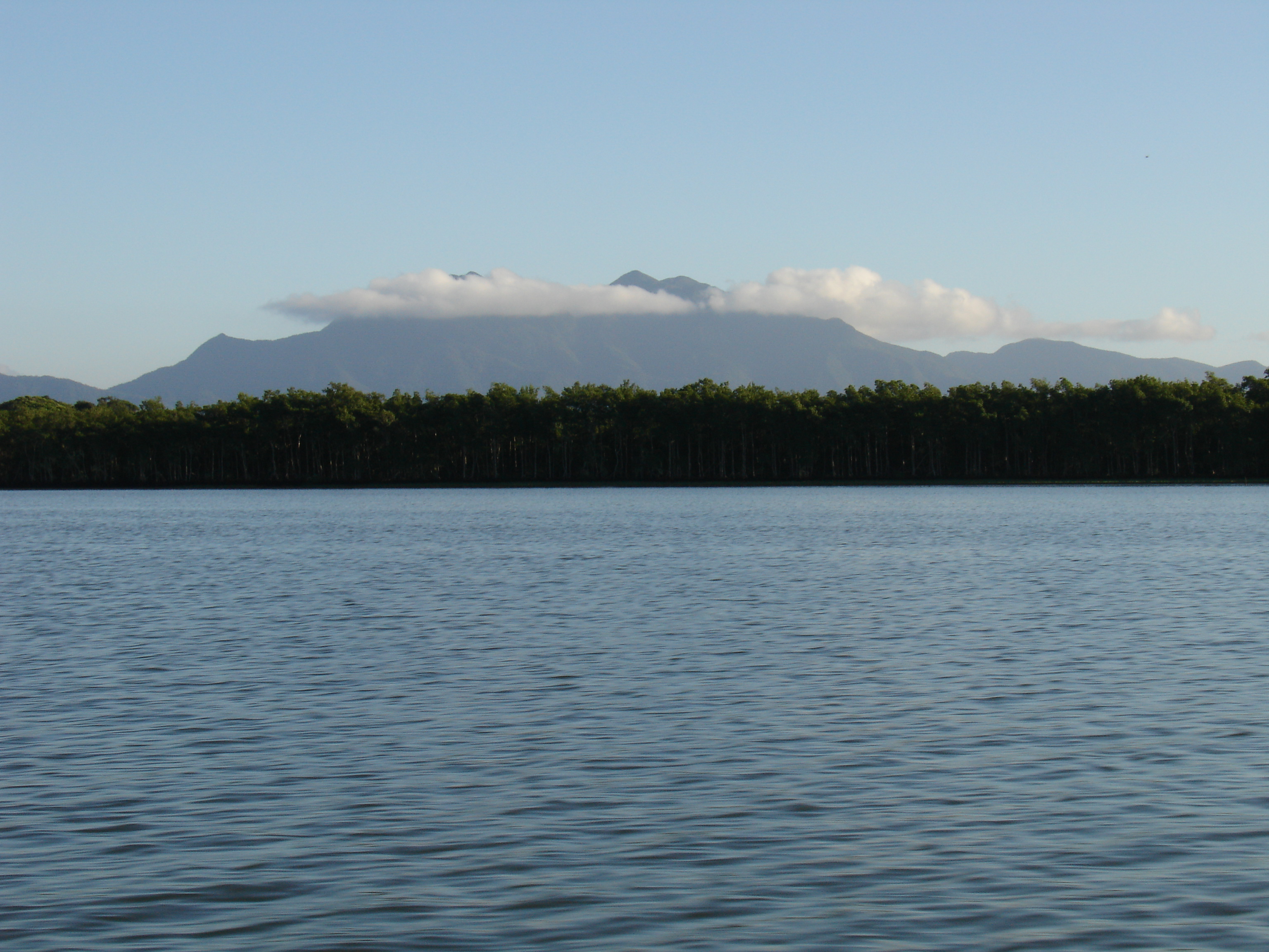 Lagamar de Cananeia State Park, Brazil.